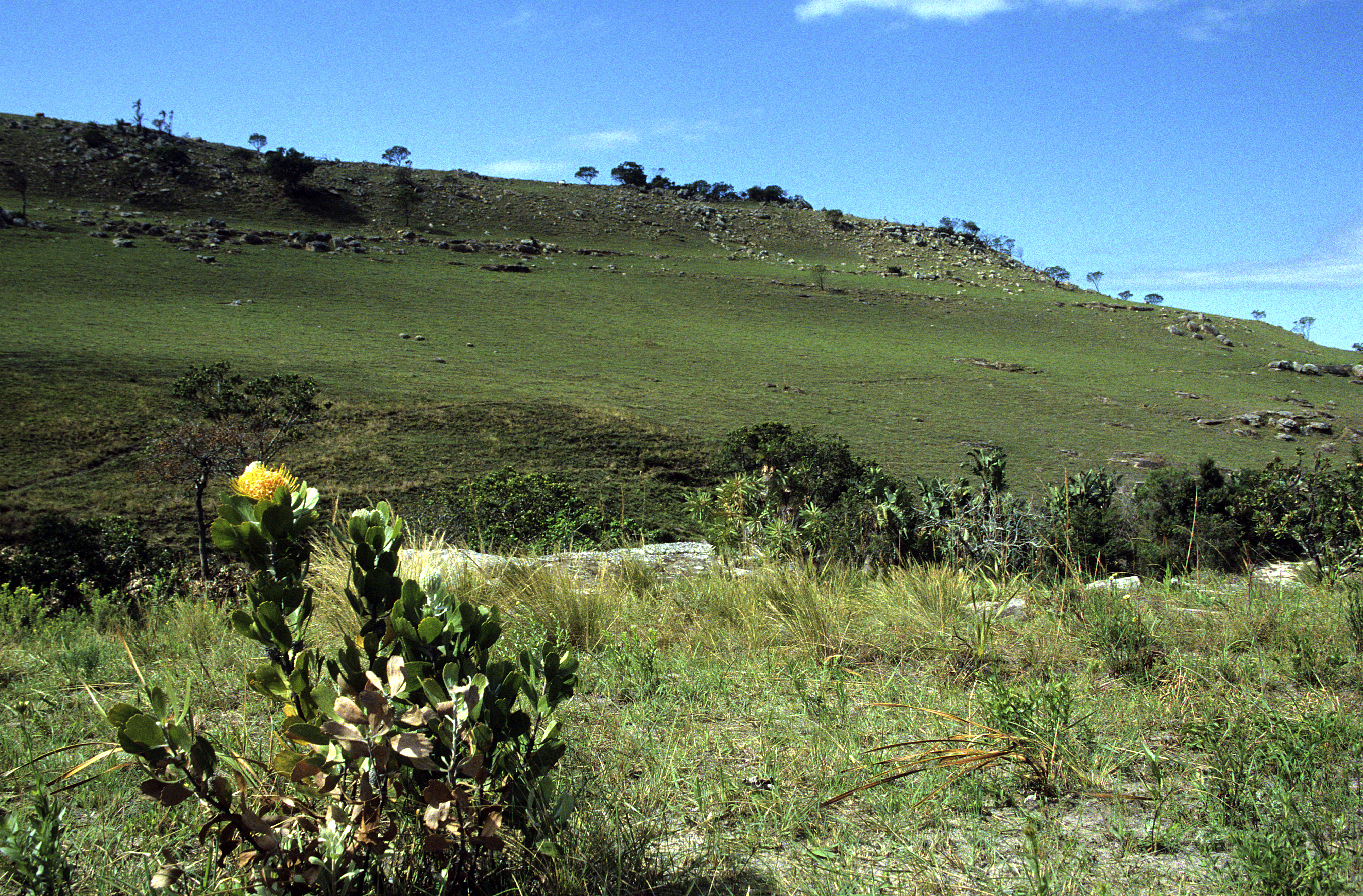 Leucospermum innovans, plant in flower; KwaDlambu Tributary (Tracor land), Pondoland, Lusikisiki District, Eastern Cape